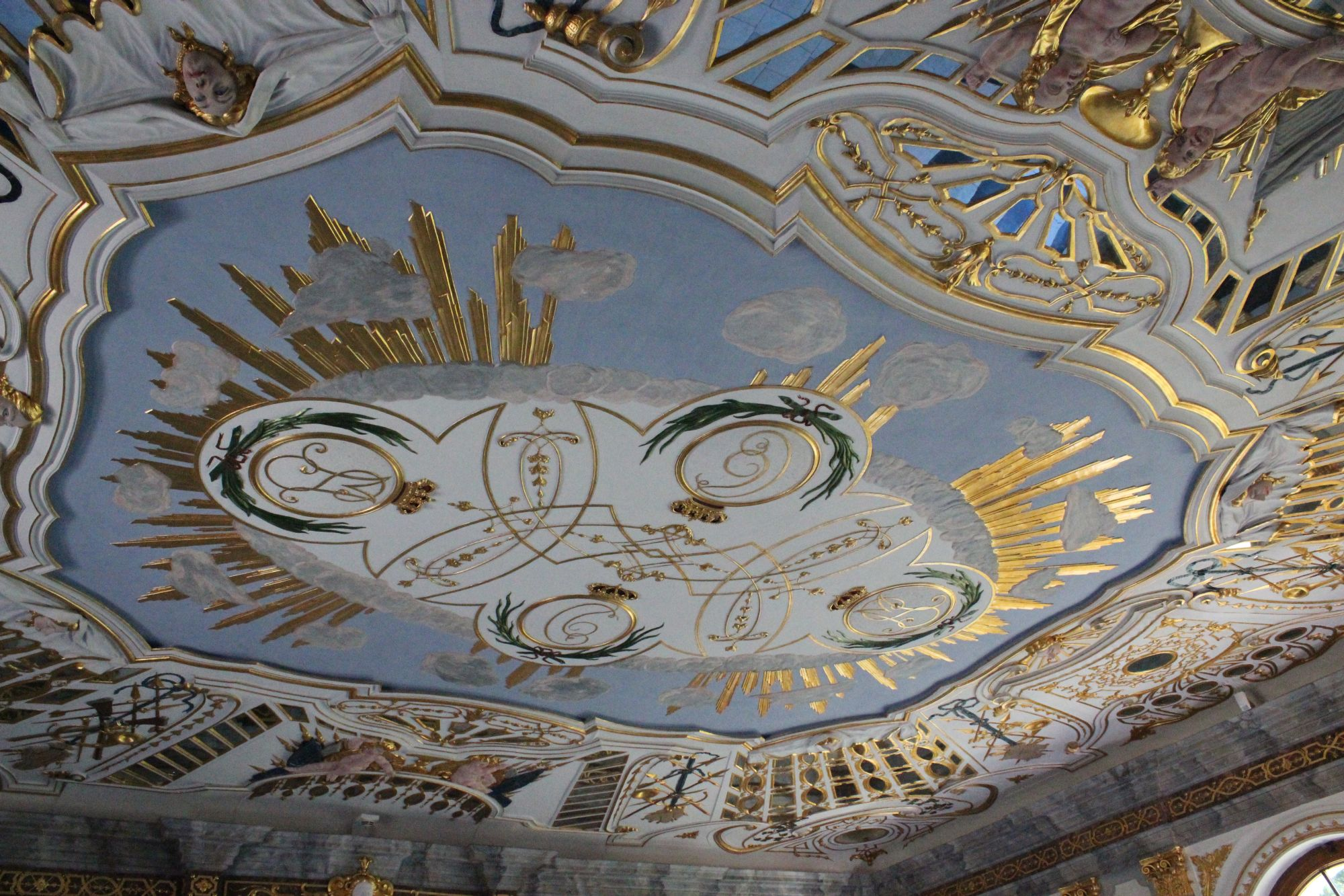 Decorations in the ceiling